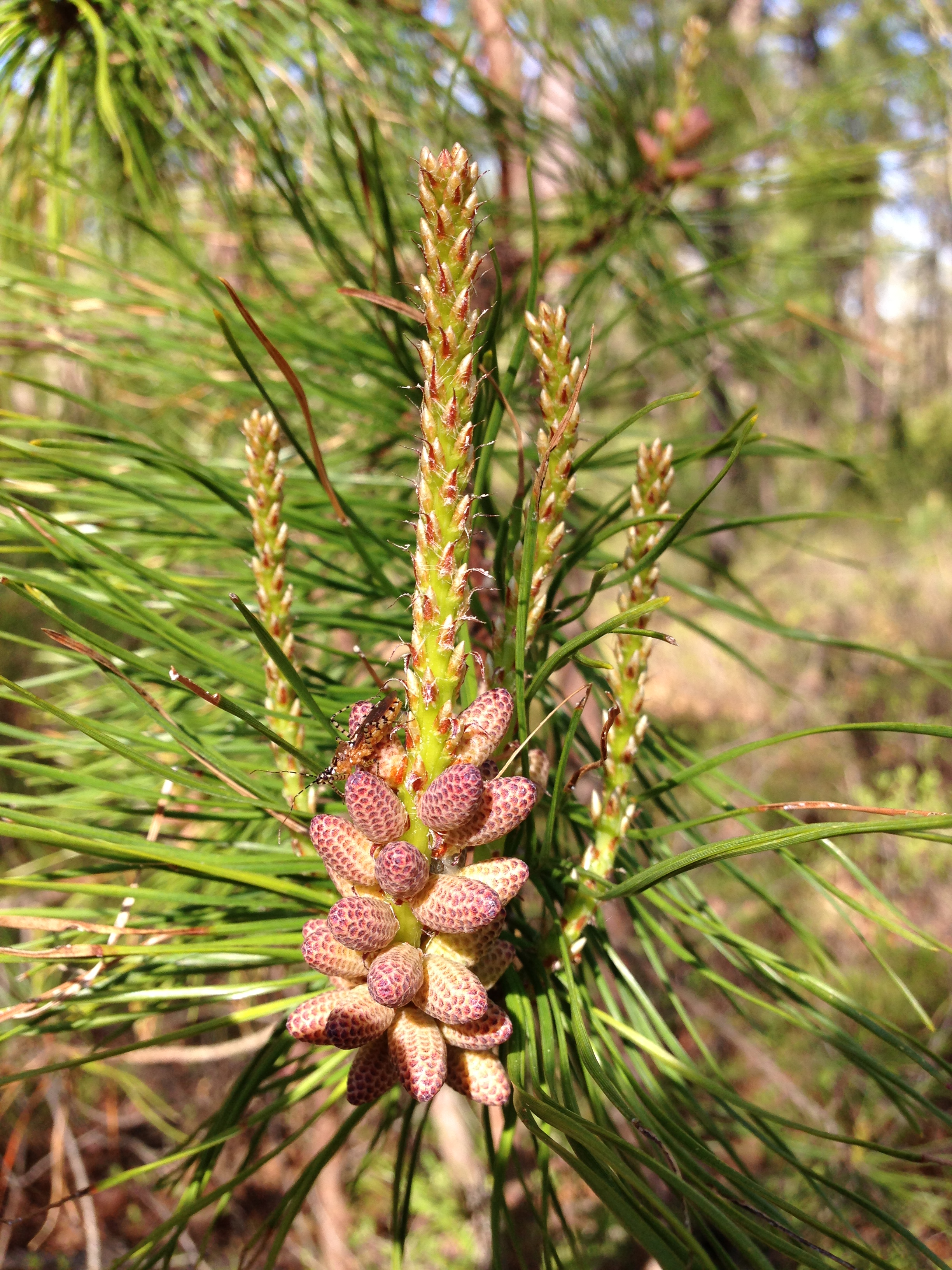 Pinus rigida (Pitch Pine) new growth and pollen cones along the Batona Trail in Brendan T. Byrne State Forest, New Jersey